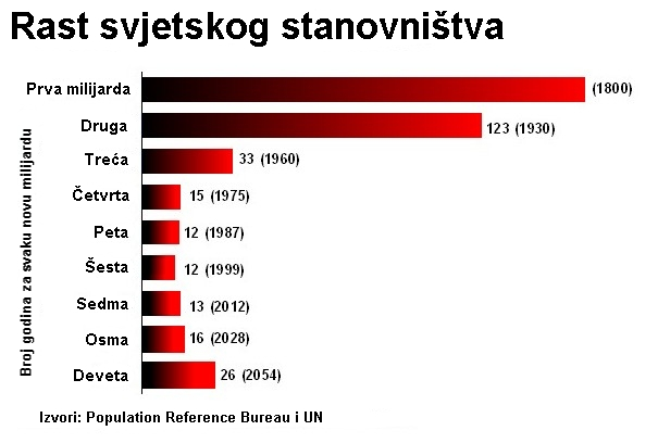 This is a chart illustrating world population growth in billions with the dates when the billions were reached.